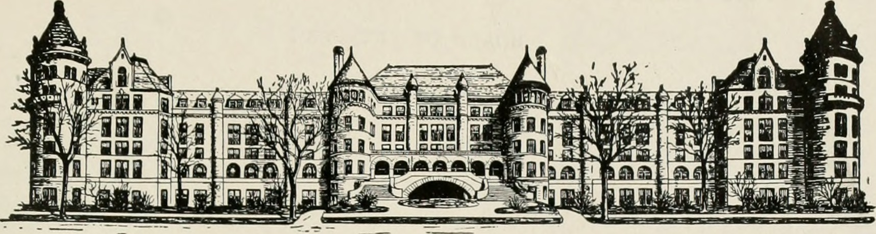 Title: The American Museum journal Year: c1900-(1918) (c190s) Authors: American Museum of Natural History Subjects: Natural history Publisher: New York : American Museum of Natural History Text Appearing Before Image: ' Text Appearing After Image: THE AMERICAN MUSEUM JOURNAL DEVOTED TO NATURAL HISTORY, EXPLORATION AND THE DEVELOPMENT OF PUBLIC EDUCATION THROUGH THE MUSEUM December, 1916 Volume XVI, number 8